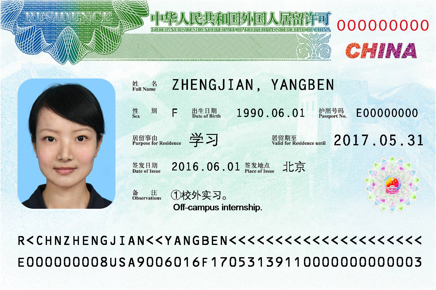 Residence Permit for Foreigner in People's Republic of China, which started to issue from June 1, 2019. 中文（中国大陆）: 2019年6月1日起签发的新版中华人民共和国外国人居留许可